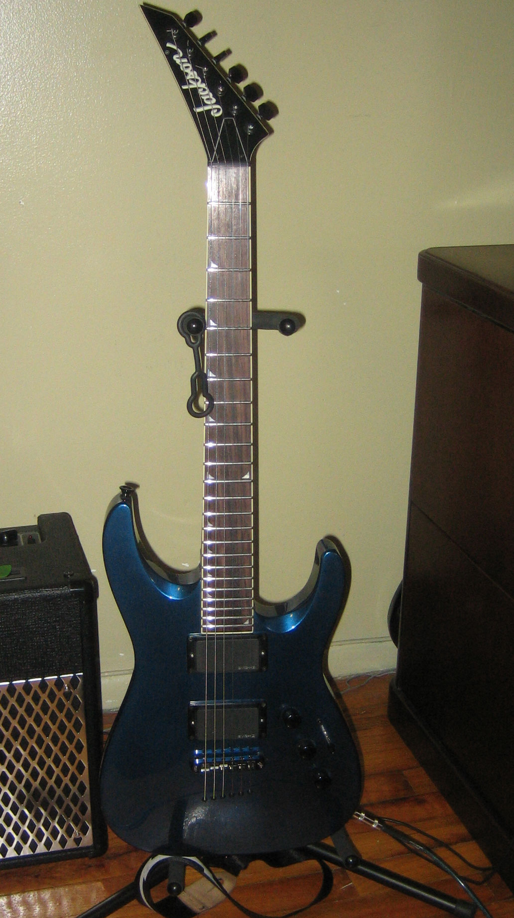 Taken by me on May 8, 2006. Jackson DKMGT (hardtail version of DKMG)